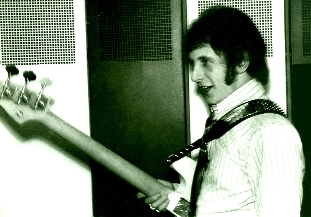 1967 - The Who's bassist, John Entwistle, with his bandmates backstage before their gig in Ludwigshafen, Germany.